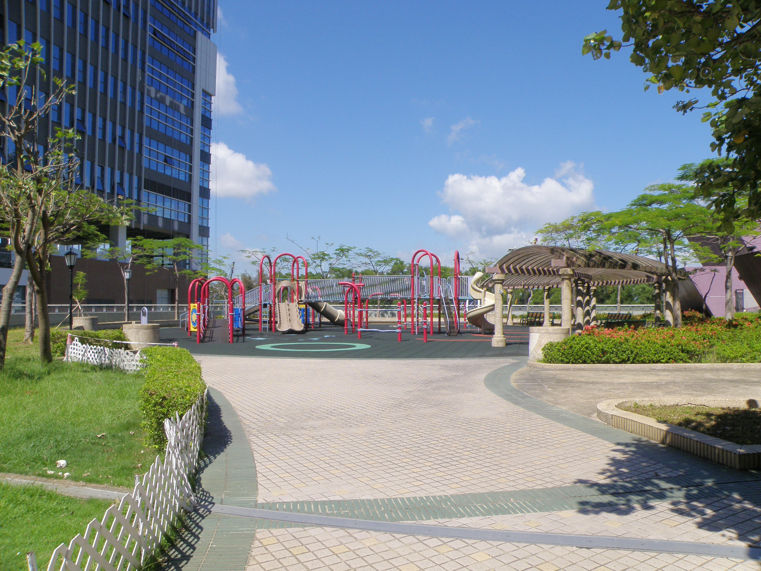 Olympic Plaza in Tai Kok Tsui, Hong Kong.